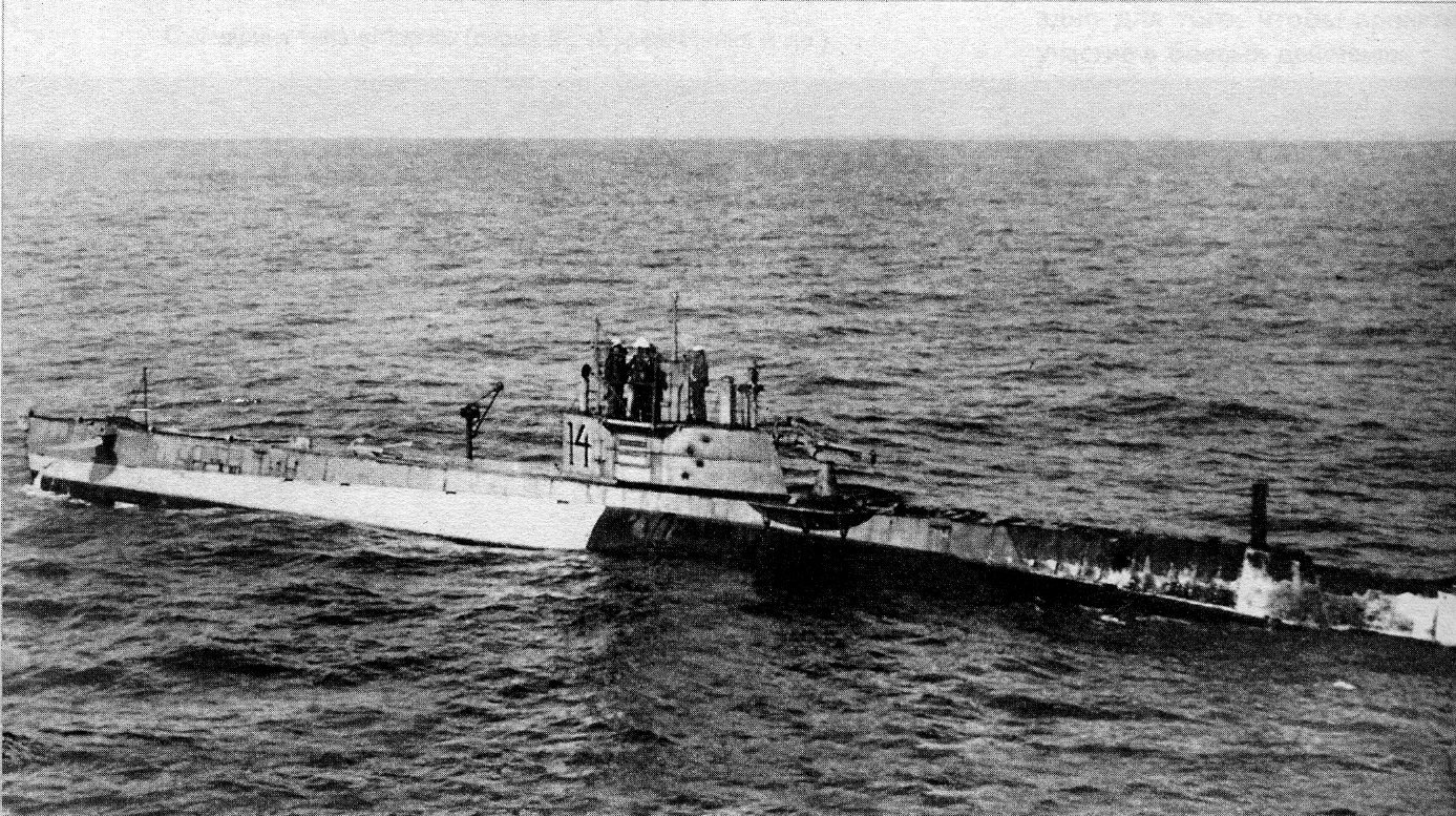 Submarine Marksist (Podvodnaya lodka No. 14).